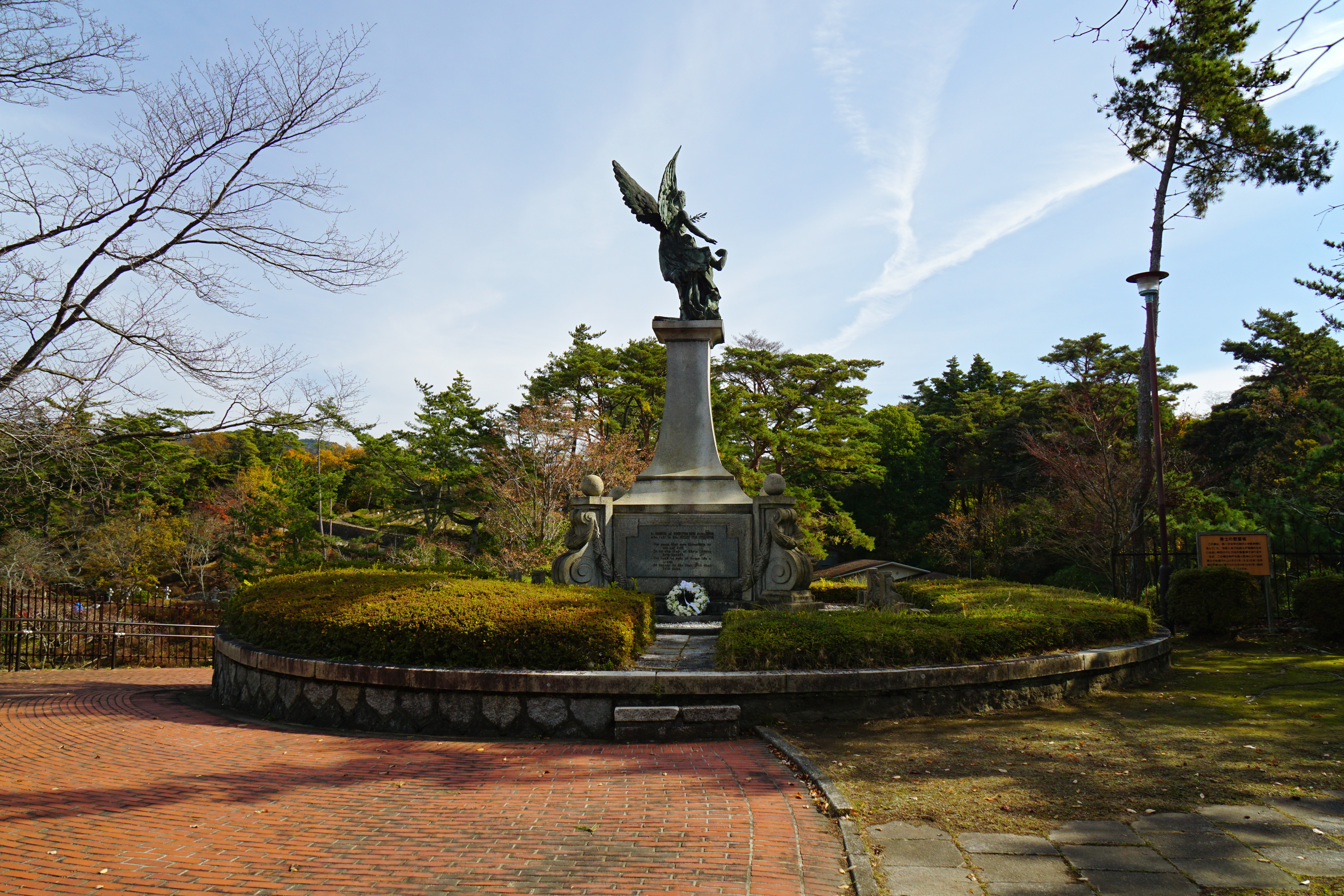 Kobe Municipal Foreign Cemetery in Kobe, Hyogo prefecture, Japan